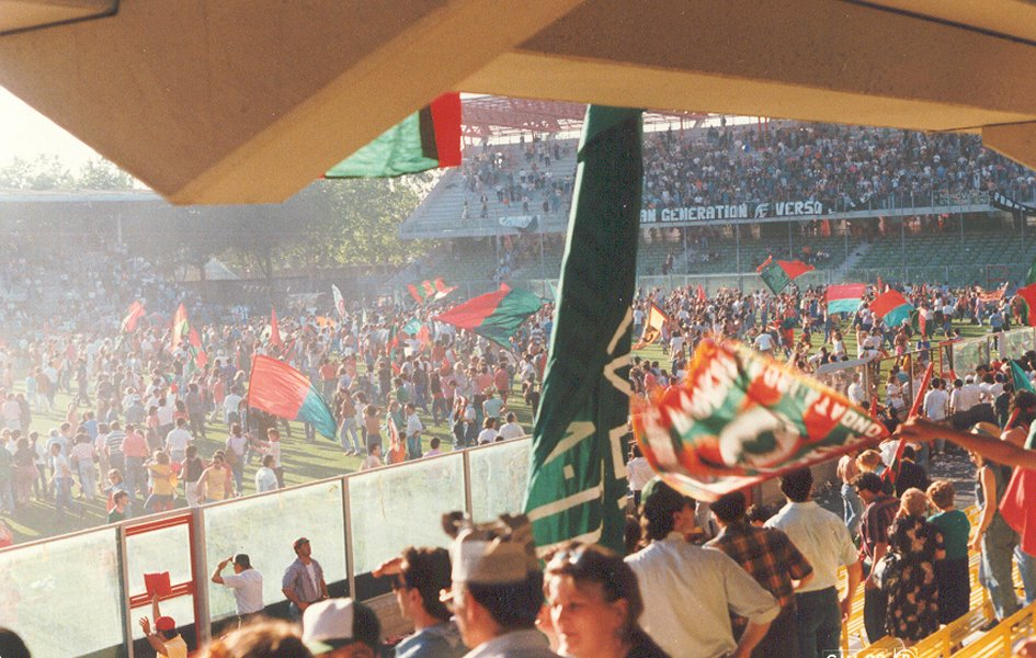 Cesena (Italy), "Dino Manuzzi" Stadium, June 11, 1989. P.C. Ternana — Chieti Calcio (0-0 a.e.t., 3-1 penalties), Italian League 1988–89 Serie C2, group C, promotion tie-breaker.